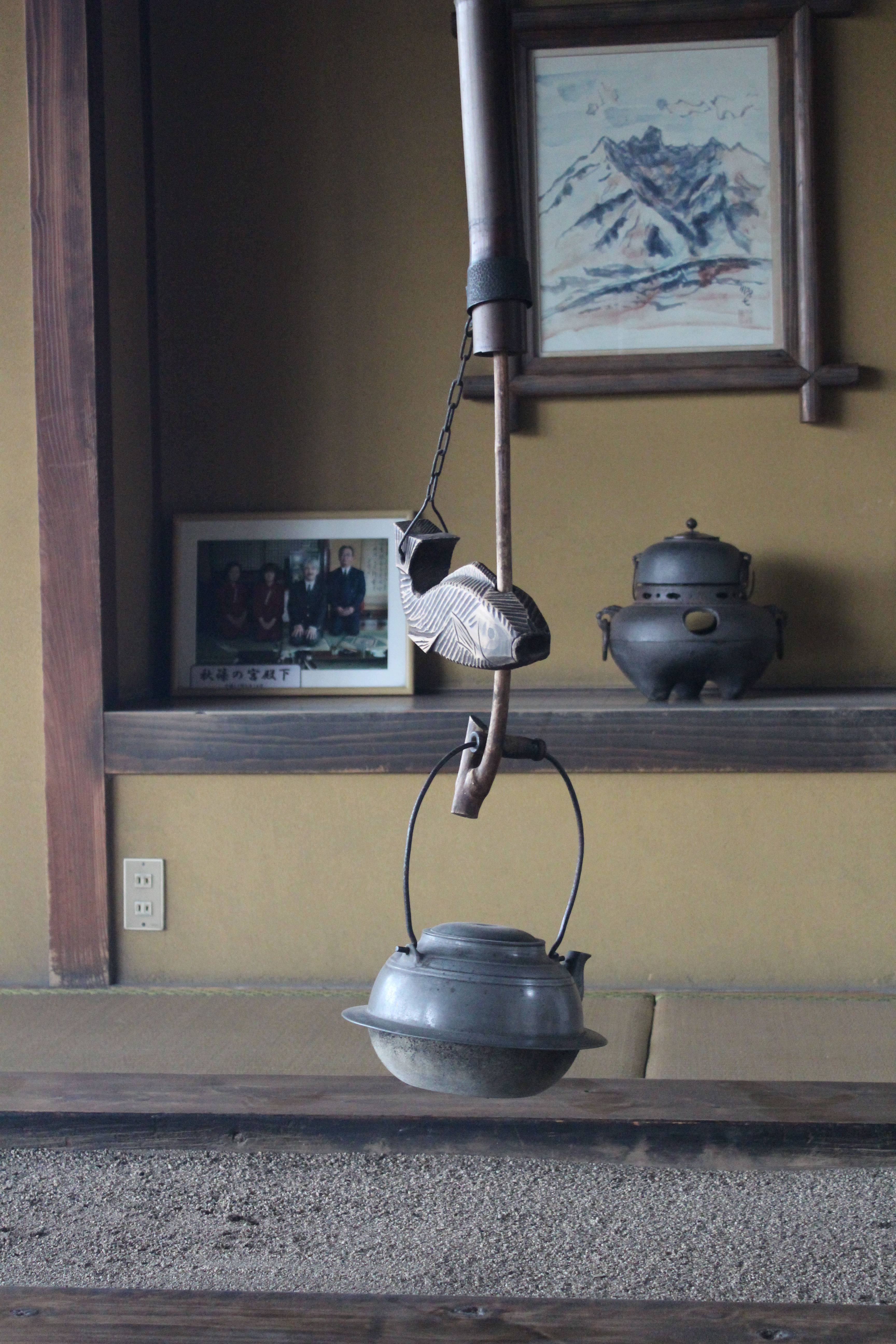 Takamori Dengaku Hozonaki is the restaurant on the way to Mount Aso. The 150 year old restaurant does Dengaku food which is made in a sand grill. A pot hangs on top of the grill trapping the heat for soup or tea. Everything is very artistic and reflects the local environment. Picture by Mrunalini.